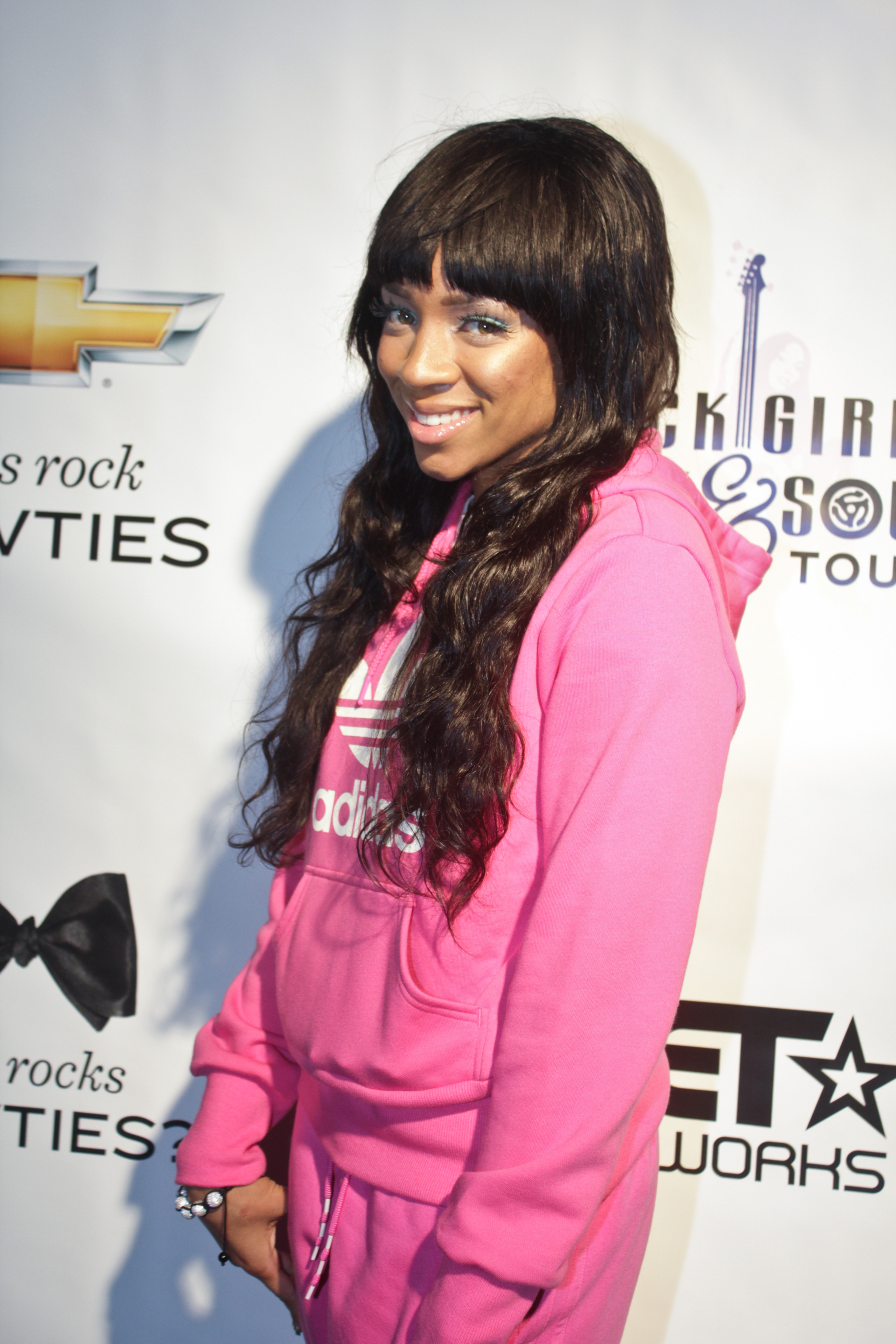 Lil' Mama on the red carpet at the Black Girls Rock! and Soul Tour NYC on October 13, 2011